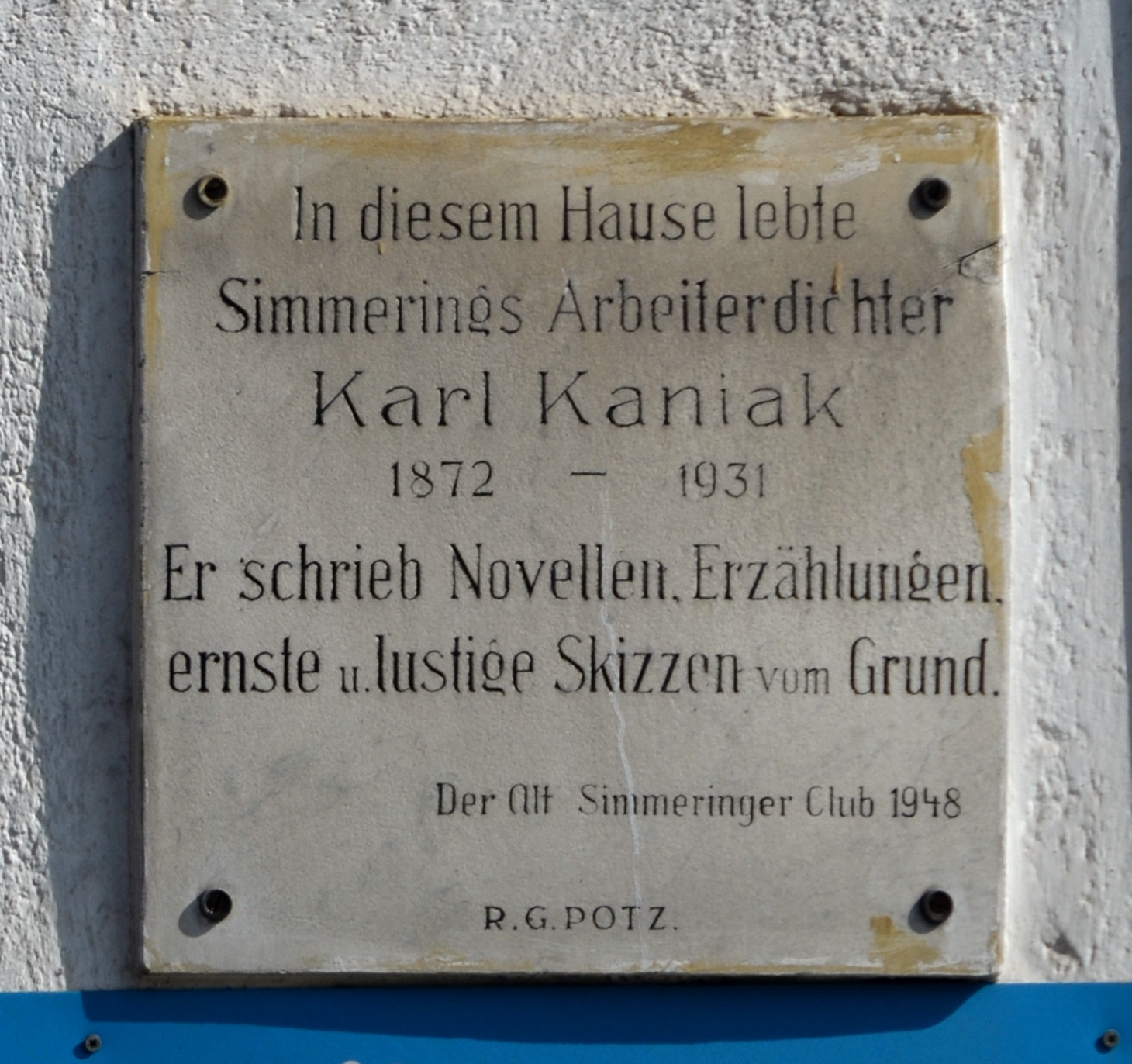 Memorial plaque for the workers' poet and singer Karl Kaniak (1872-1931) at Geiselbergstraße 5, in the 11th disctrict of Vienna, Simmering.